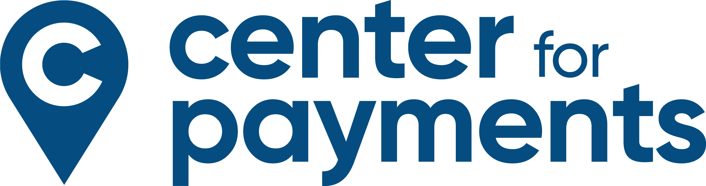 Center for Payments Logo